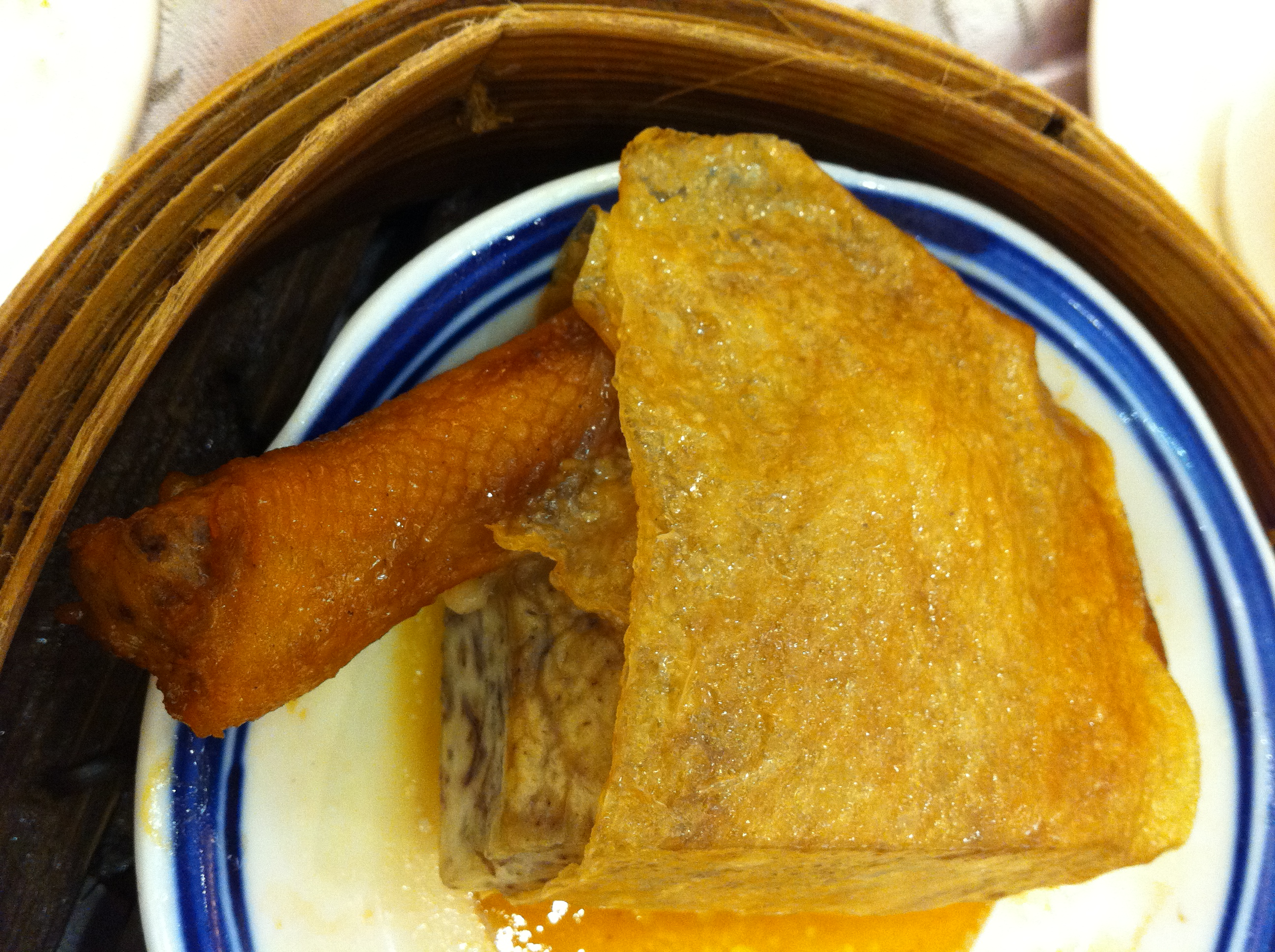 上環 寶湖金宴 寶湖飲食集團, Treasure Lake Golden Banquet Restaurant, On Tai Street, Sheung Wan, Hong Kong